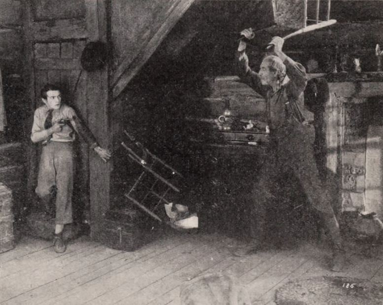 Still from the American film Tol'able David (1921) with Richard Barthelmess and Walter P. Lewis, on page 49 of the November 26, 1921 Exhibitors Herald.